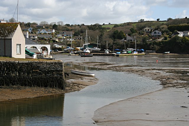 Penpoll Creek. Like Devoran this was once an place in which quite large ships berthed. The tin mining inland, while providing the goods to be shipped out, also provided the mud which washed into Restronguet Creek greatly decreasing the water depth and making such commerce impossible. Today it is the home of pleasure craft and very expensive houses.